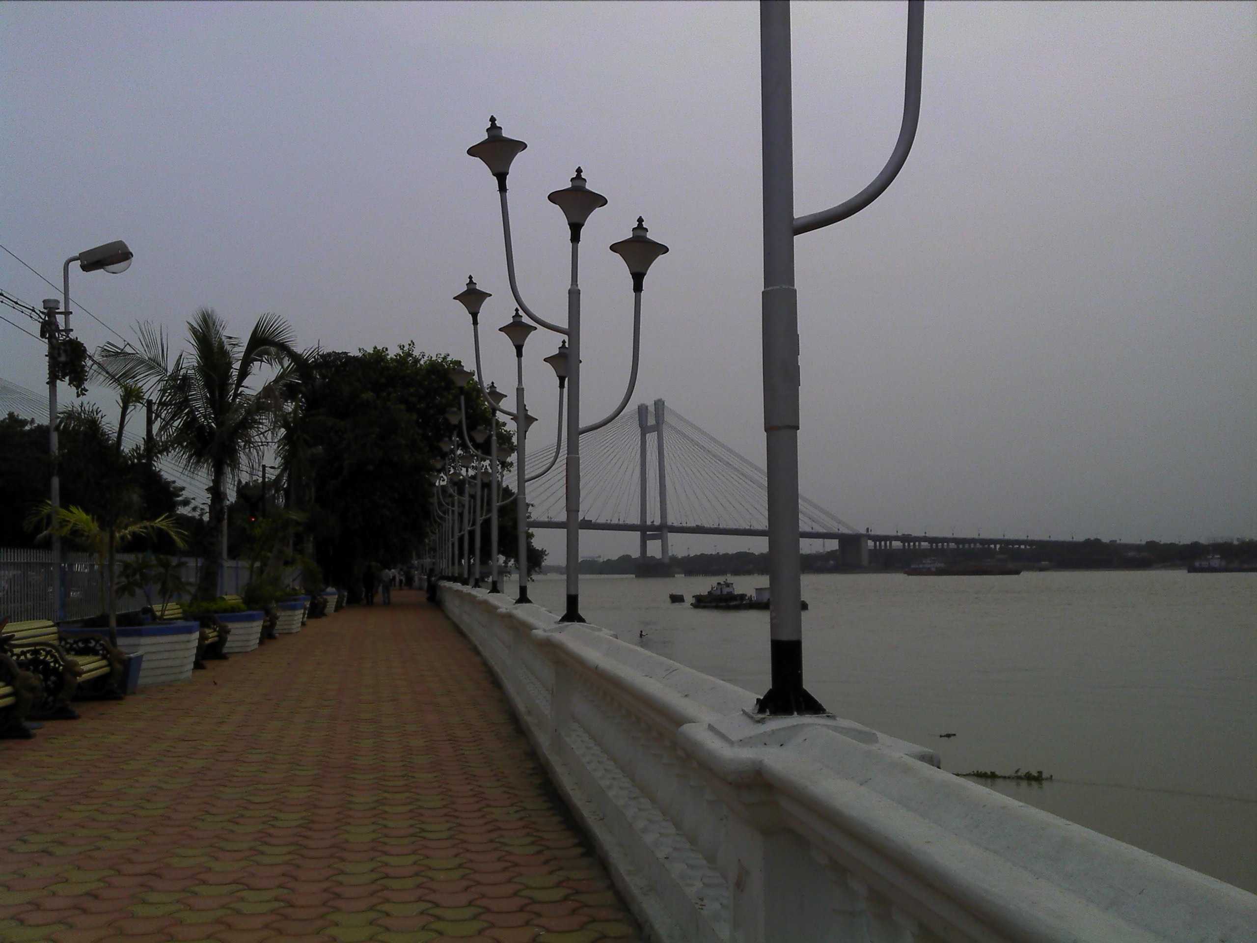 Walkway in Kolkata Riverfront Beautification Project Phase 1 with Vidyasagar Setu in background.